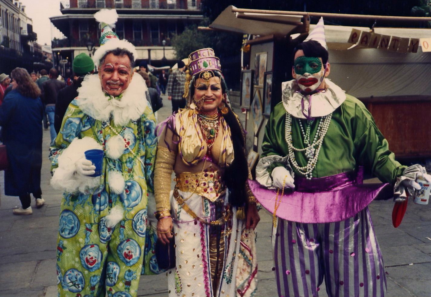 New Orleans Mardi Gras: Costumed revelers in Jackson Square